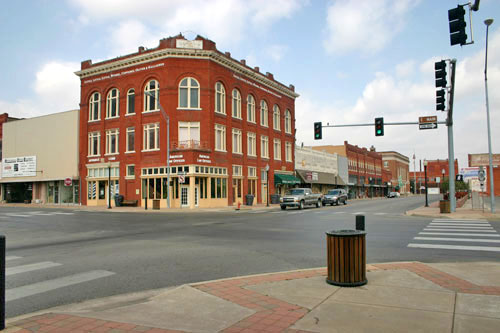 Intersection of Main (SH-199) & Washington (SH-77S) Streets in downtown Ardmore, Oklahoma. I took this photo myself on 03/05/06.